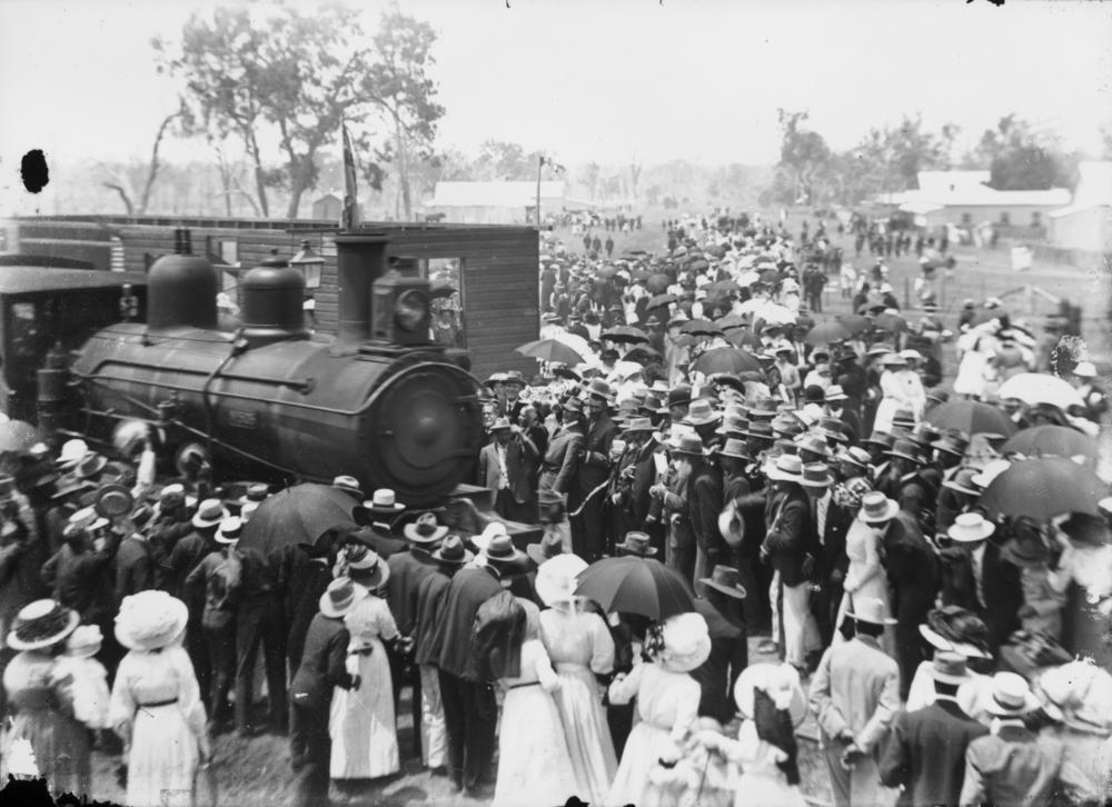 Possibly the official opening of the new rail link between Pittsworth and Millmerran, 1911 Pittsworth was connected to Toowoomba by rail in September 1887. An extension from Pittsworth to Millmerran was constructed at a later date and opened on 18 October 1911. A large crowd is gathered iaround a steam train. People are dressed in their finest.